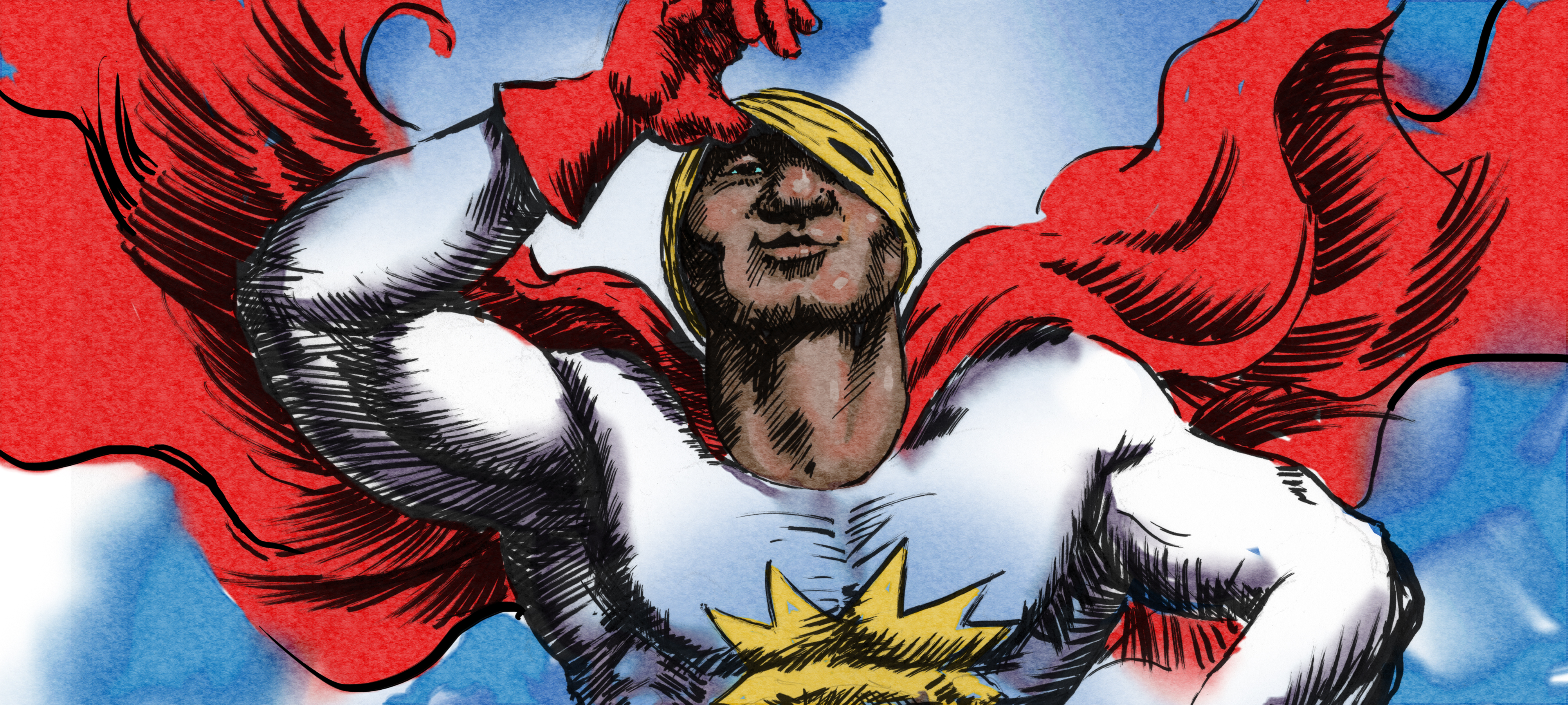 Comic image depicting a minority superhero